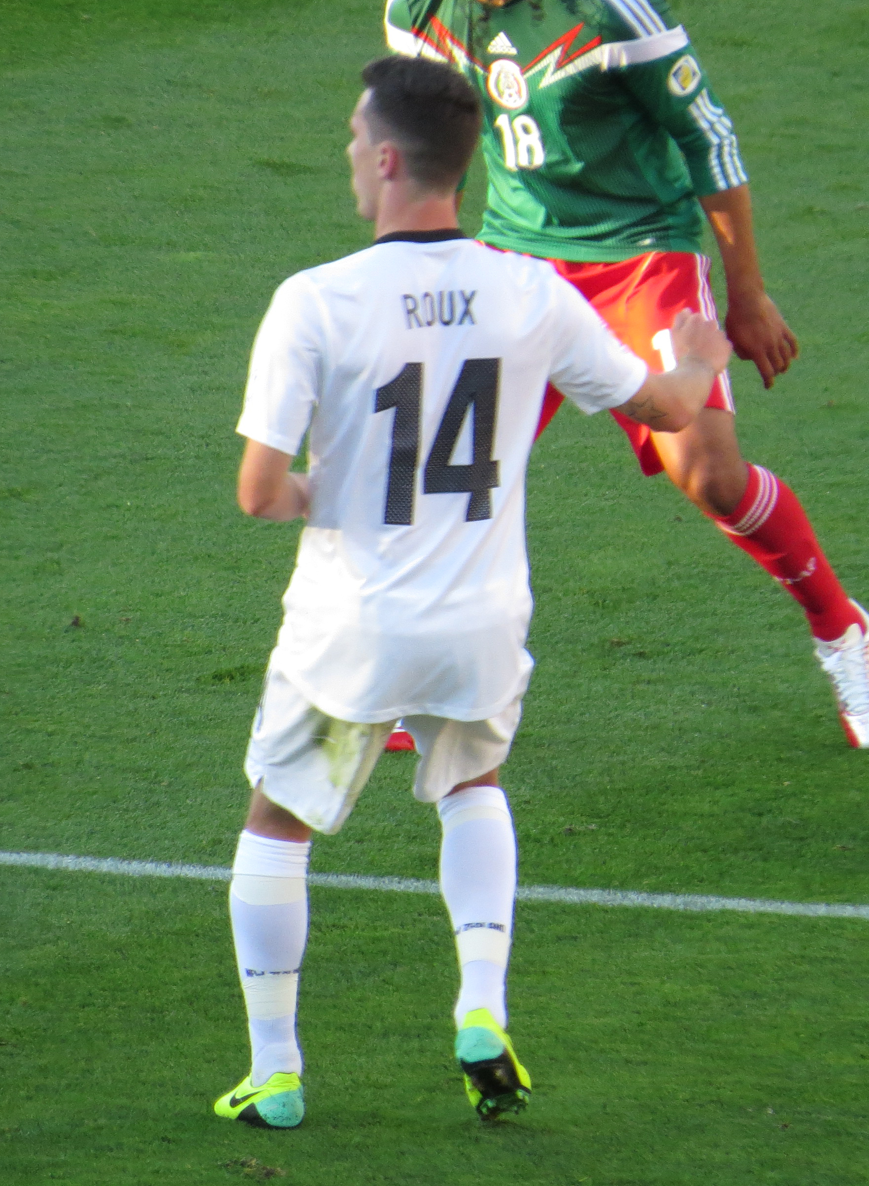 New Zealand All Whites defender Storm Roux playing against Mexico in their 2014 World Cup Qualification match in November 2013